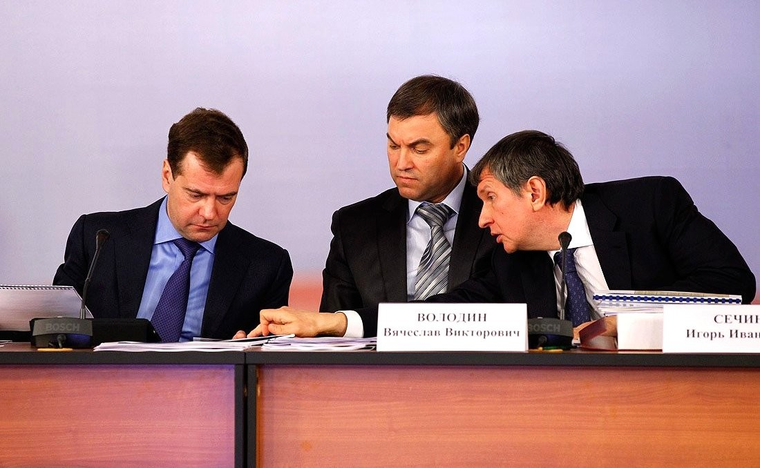 At a meeting of the Commission for Modernisation and Technological Development of Russia’s Economy.